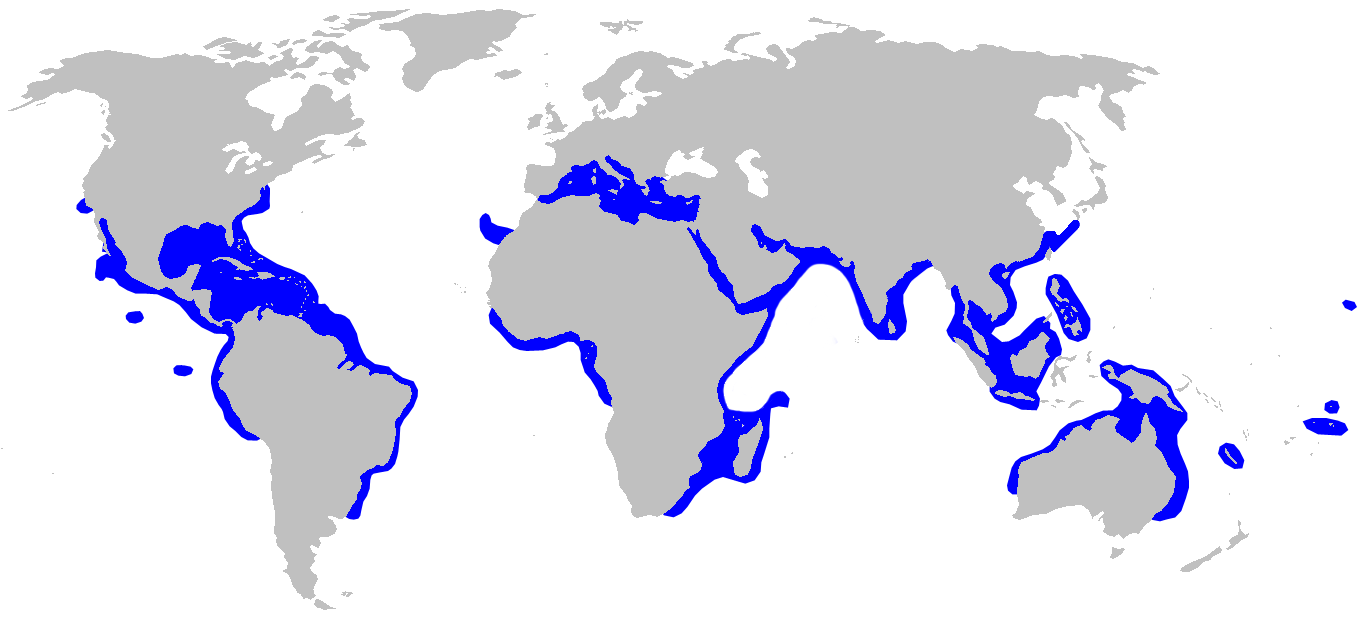 Distribution map for Carcharhinus limbatus